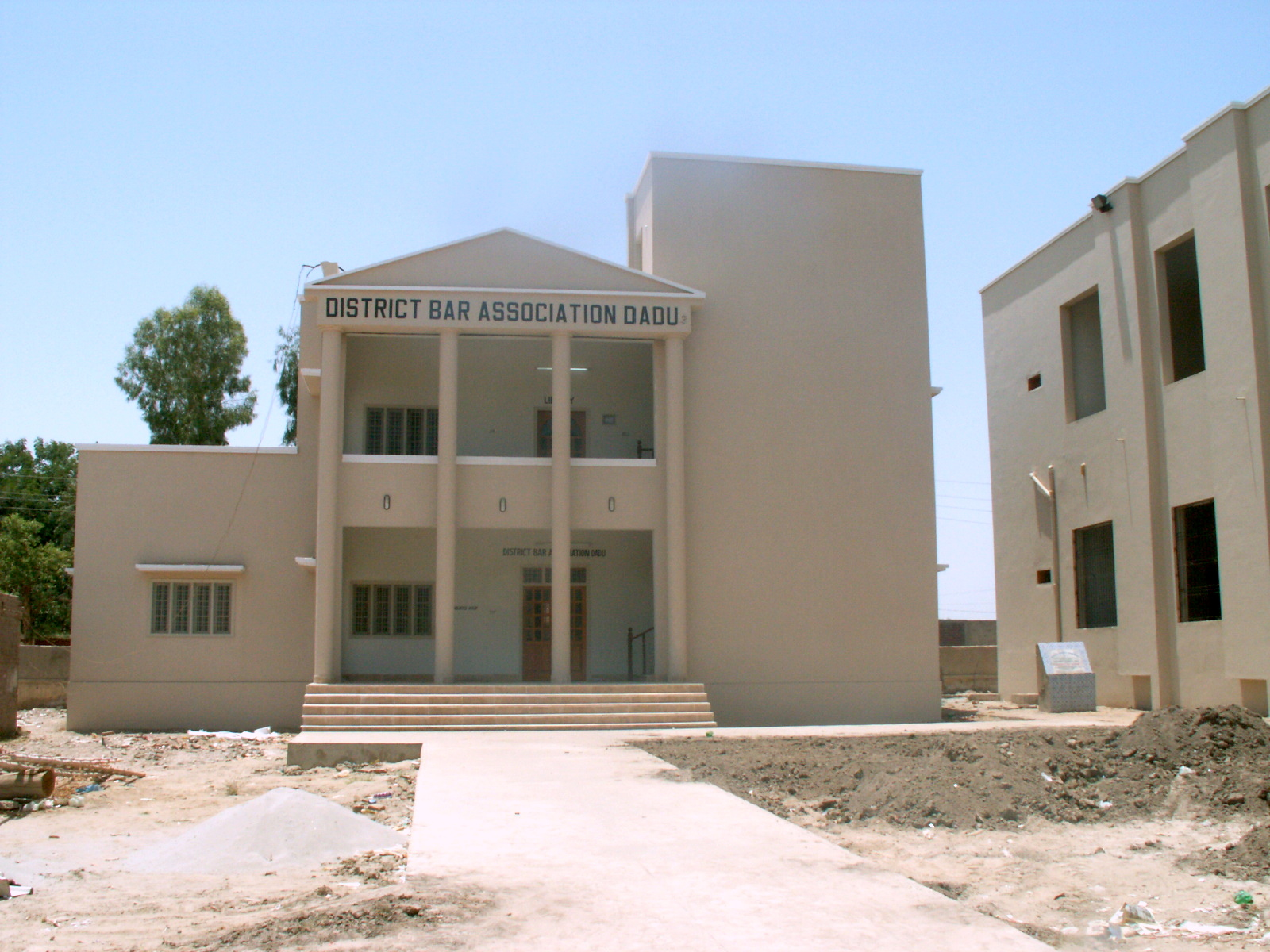 District Bar Association Dadu